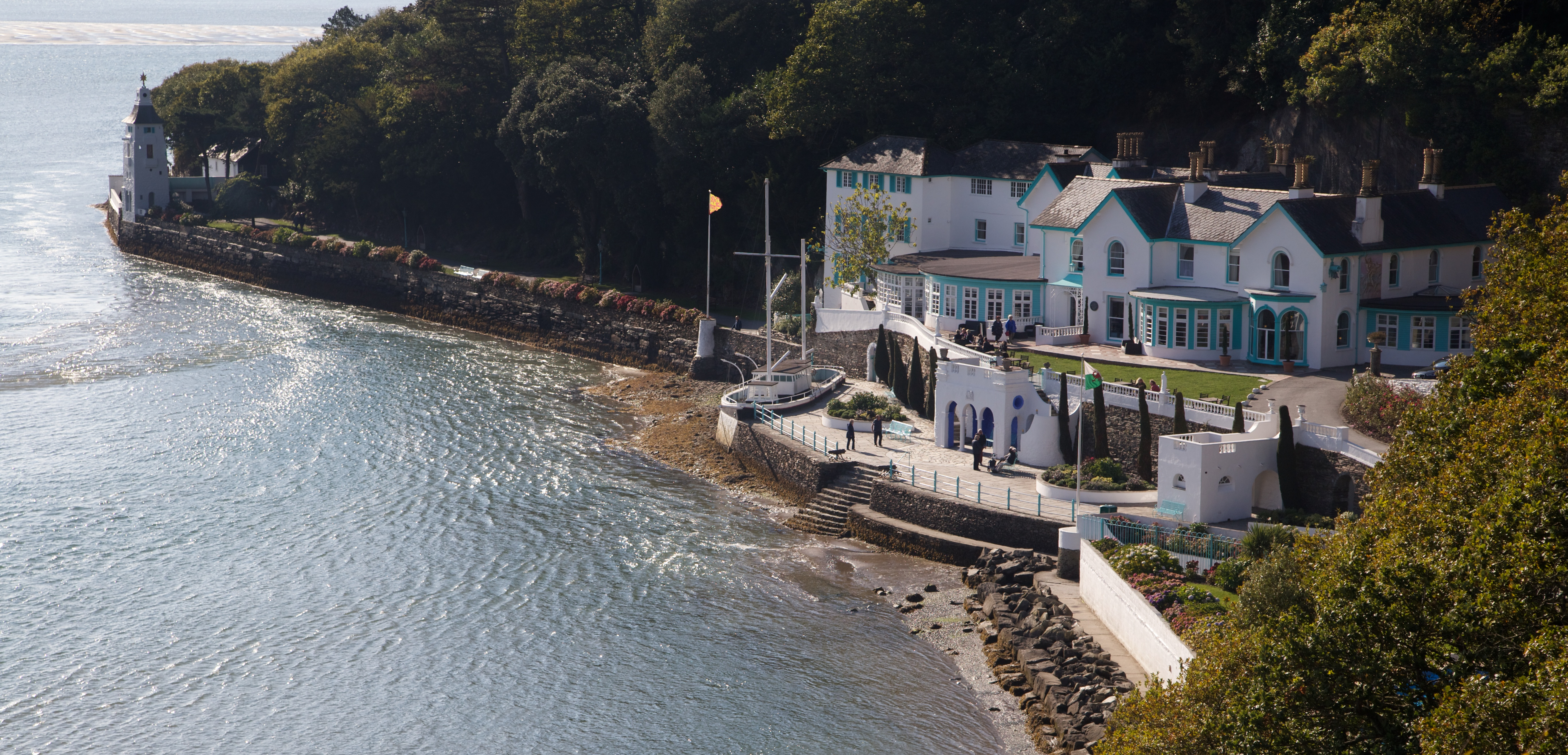 Portmeirion Hotel Including Revetment, Balustrade and Sculptures to the Upper Terrace Wikidata has entry Q29484441 with data related to this item.